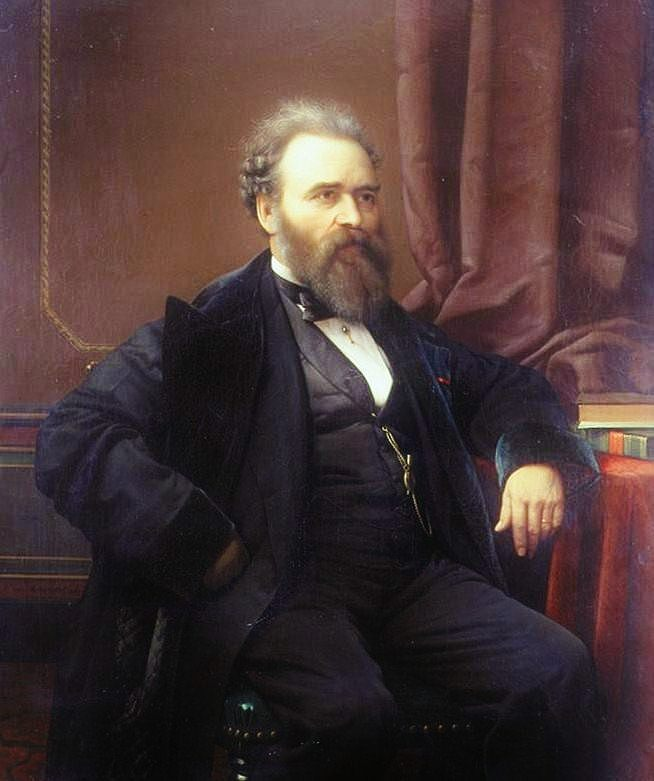 Self-portrait (full version)